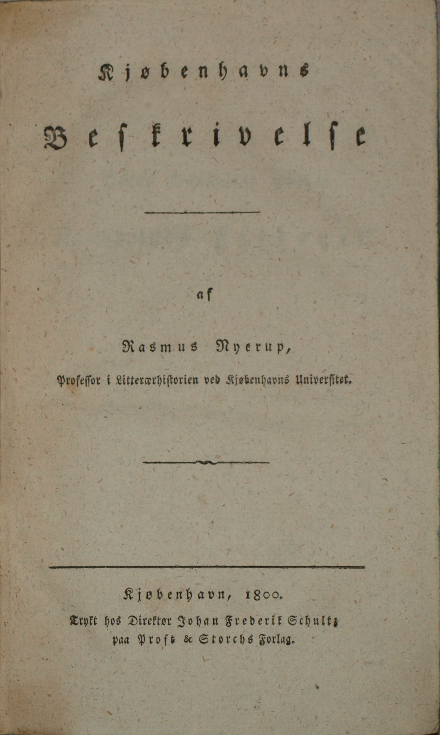 Rasmus Nyerups "Kjøbenhavns Beskrivelse" fra 1800.